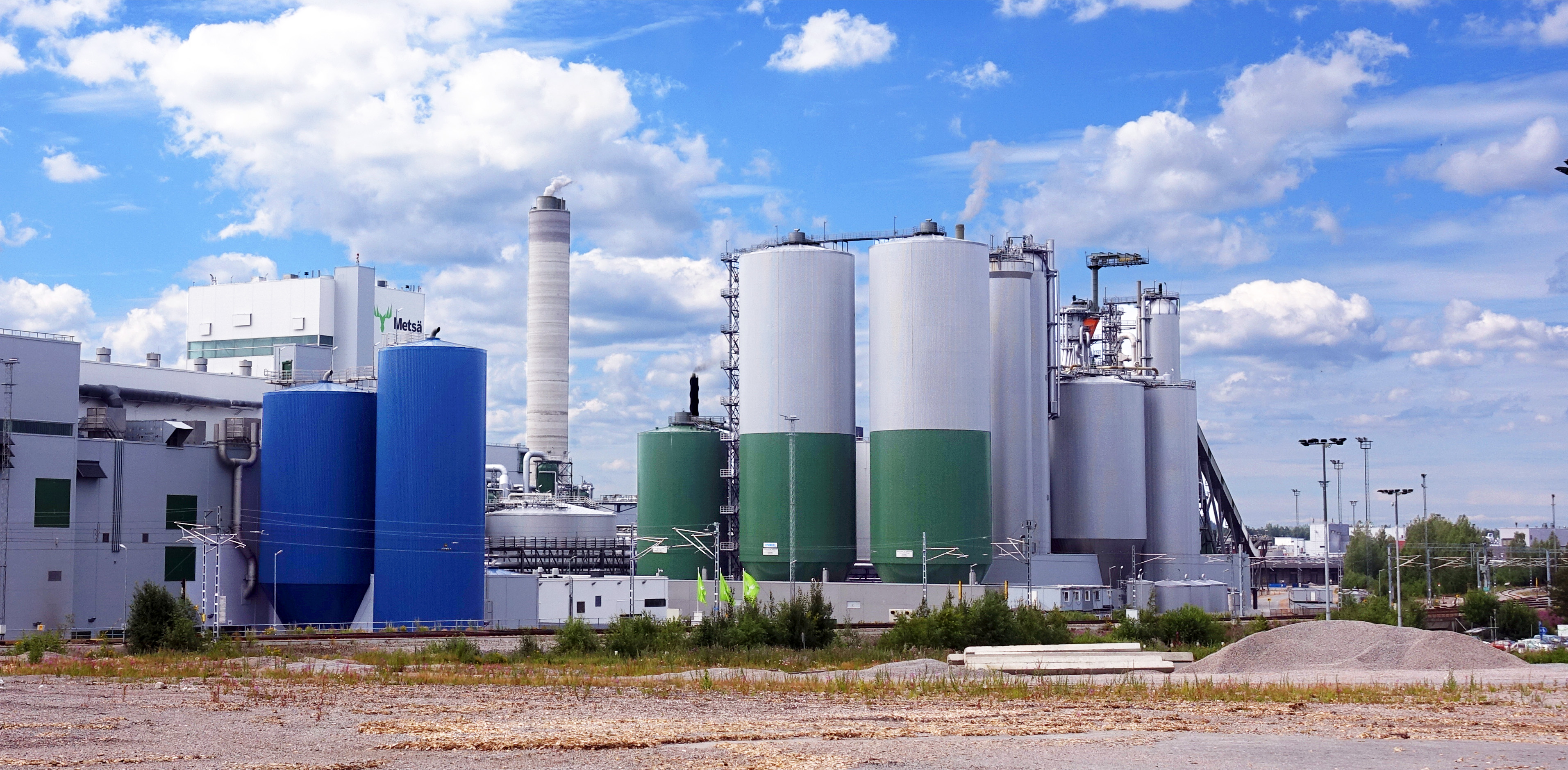 Äänekoski bioproduct mill.